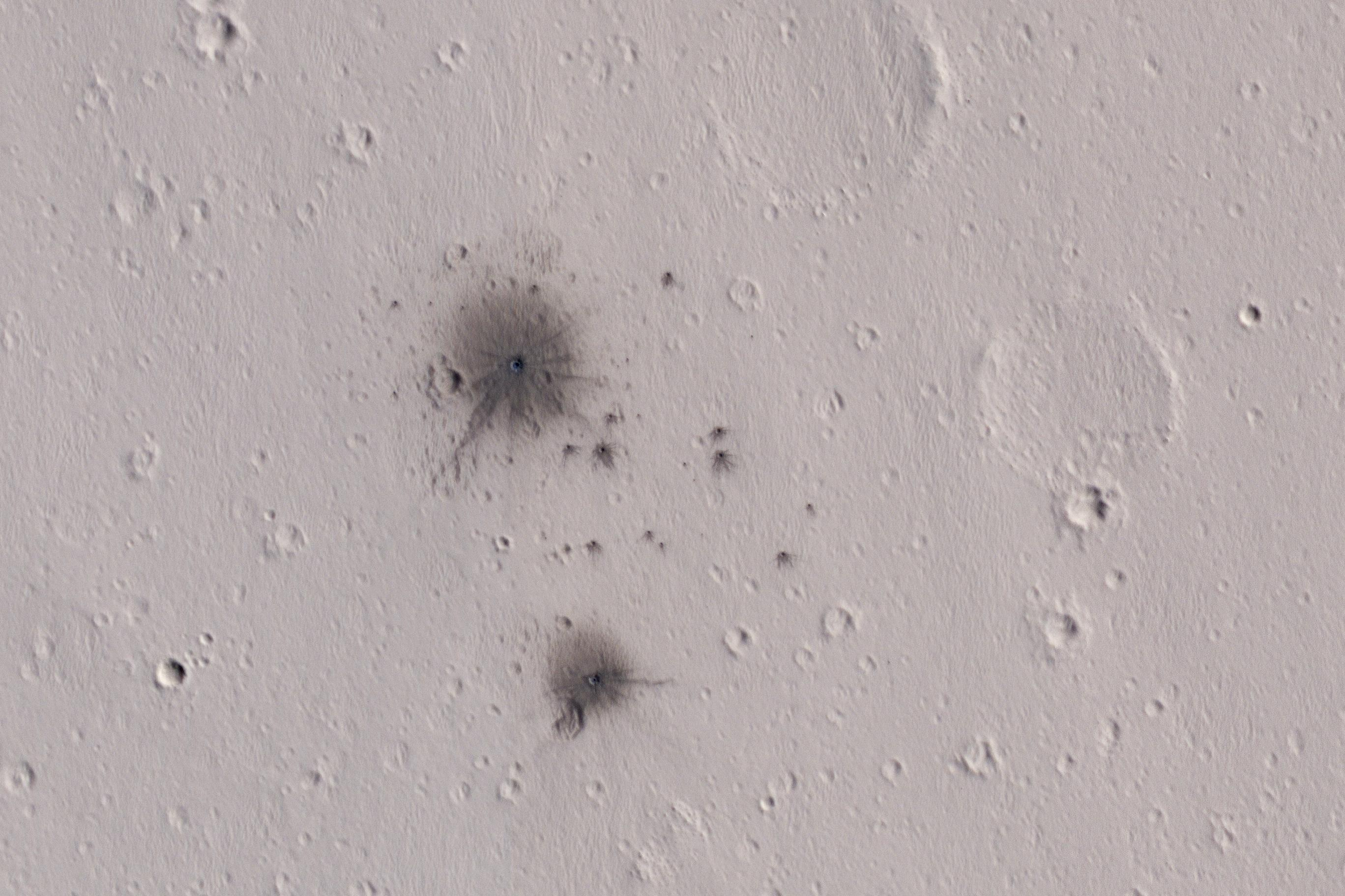 The dark spots in this enhanced-color infrared image are the recent impact craters that occurred in the Tharsis region between 2008 and 2014. These impact craters were first discovered by the Mars Context Camera (or CTX, also onboard the Mars Reconnaissance Orbiter) as a cluster of dark spots. The meteoroid that formed these craters must have broken up upon atmospheric entry and fragmented into two larger masses along with several smaller fragments, spawning at least twenty or so smaller impact craters. The dark halos around the resulting impact craters are a combination of the light-toned dust being cleared from the impact event and the deposition of the underlying dark toned materials as crater ejecta. The distribution and the pattern of the rayed ejecta suggests that the meteoroid most-likely struck from the south (which is up in the cutout). HiRISE frequently monitors new impact craters similar to this one; however, this is the first image of this particular impact taken by HiRISE, thanks to a request by the CTX team. Subsequent images will likely follow to monitor if there are any changes to the site from wind-blown activity or dust-deposition over time. The University of Arizona, Tucson, operates HiRISE, which was built by Ball Aerospace & Technologies Corp., Boulder, Colo. NASA's Jet Propulsion Laboratory, a division of Caltech in Pasadena, California, manages the Mars Reconnaissance Orbiter Project for NASA's Science Mission Directorate, Washington.